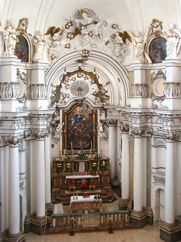 Church of Santa Chiara, Noto, Sicily, Italy.